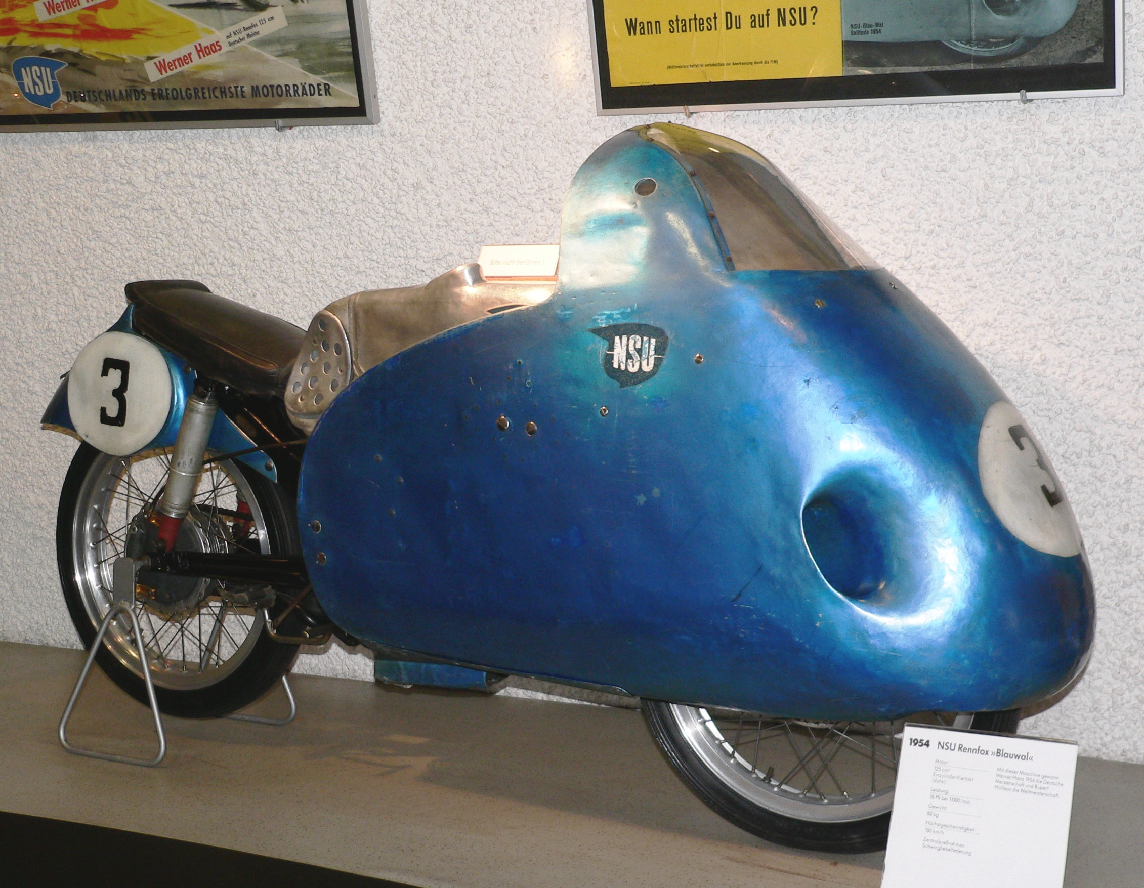 NSU-Rennfox called "Blauwal" (1954), (125 cm³, Einzylinder-Viertakt (dohc) 18 PS bei 11.000 U/Min., 80 Kg, 180 Km/h) Motorcycle of world champion Werner Haas and Rupert Hollaus